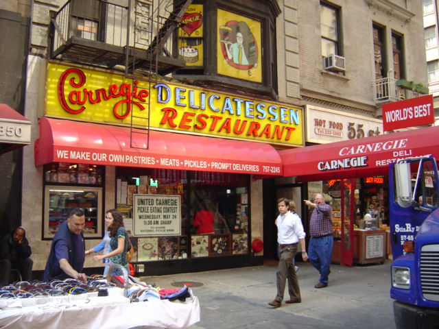 Photo of the exterior of the Carnegie Deli.